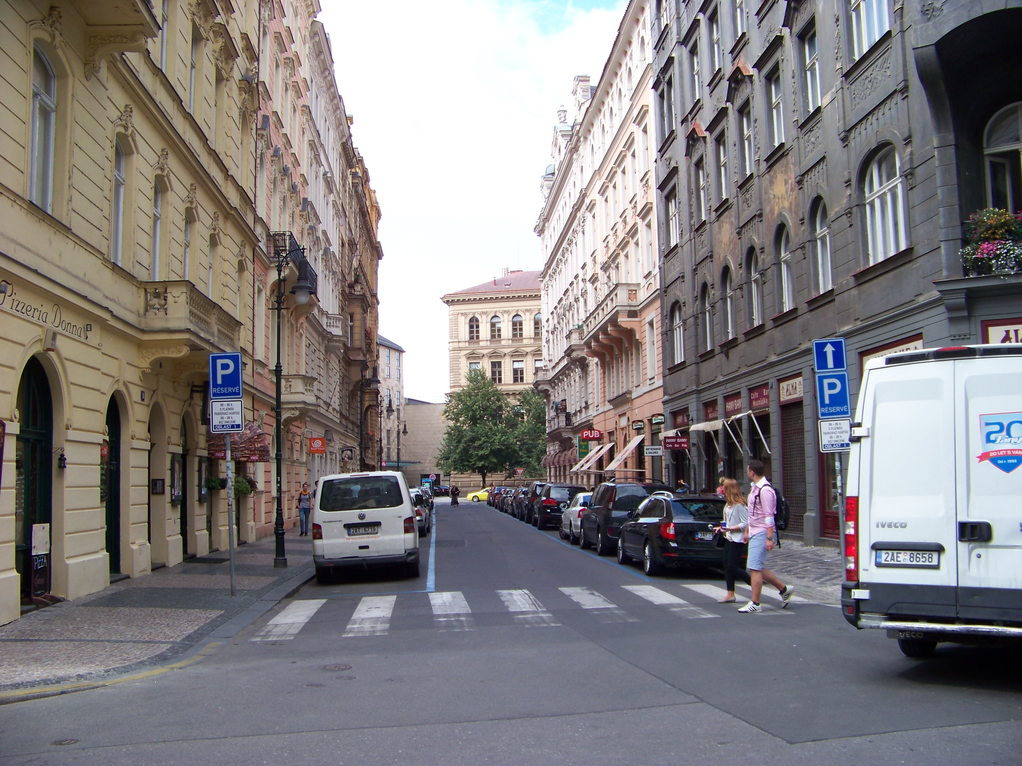 Prague-Old Town. Veleslavínova street, from Valentinská street. - OpenStreetMap(Info)